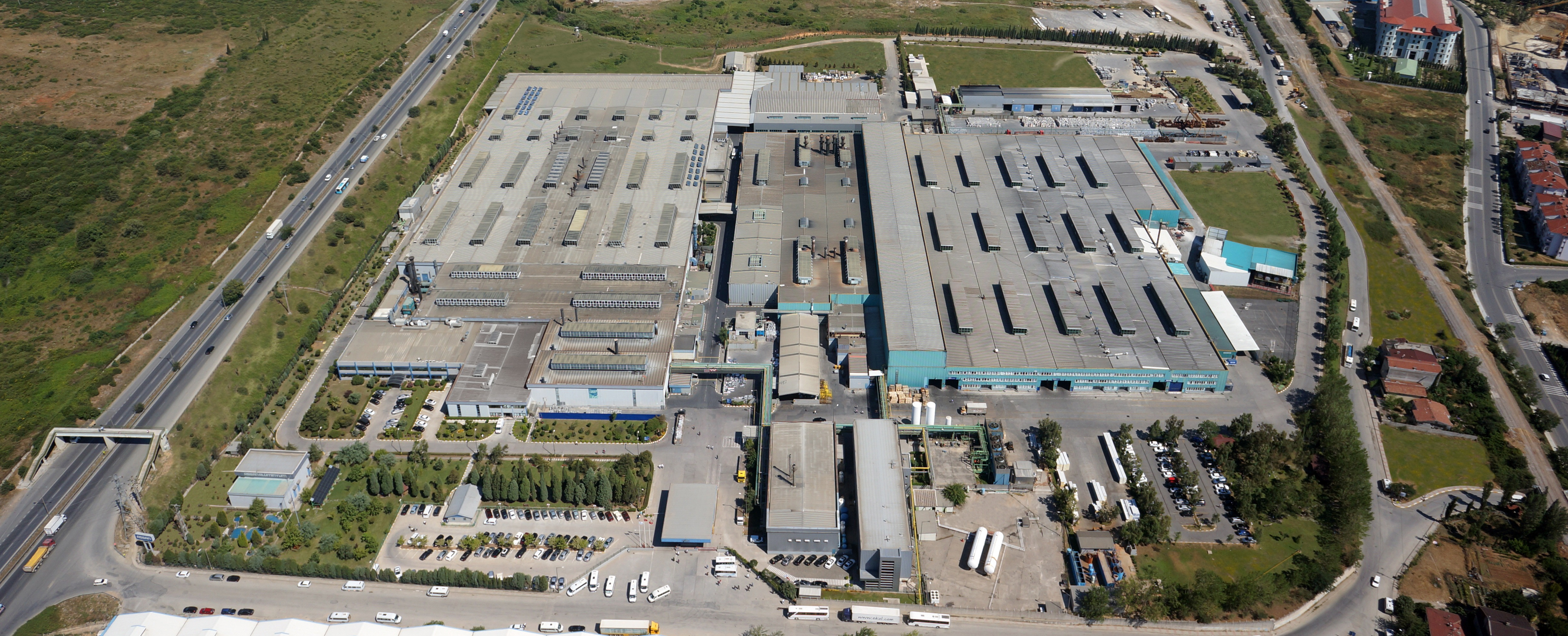 Assan Tesisleri Kuşbakışı Görünüm